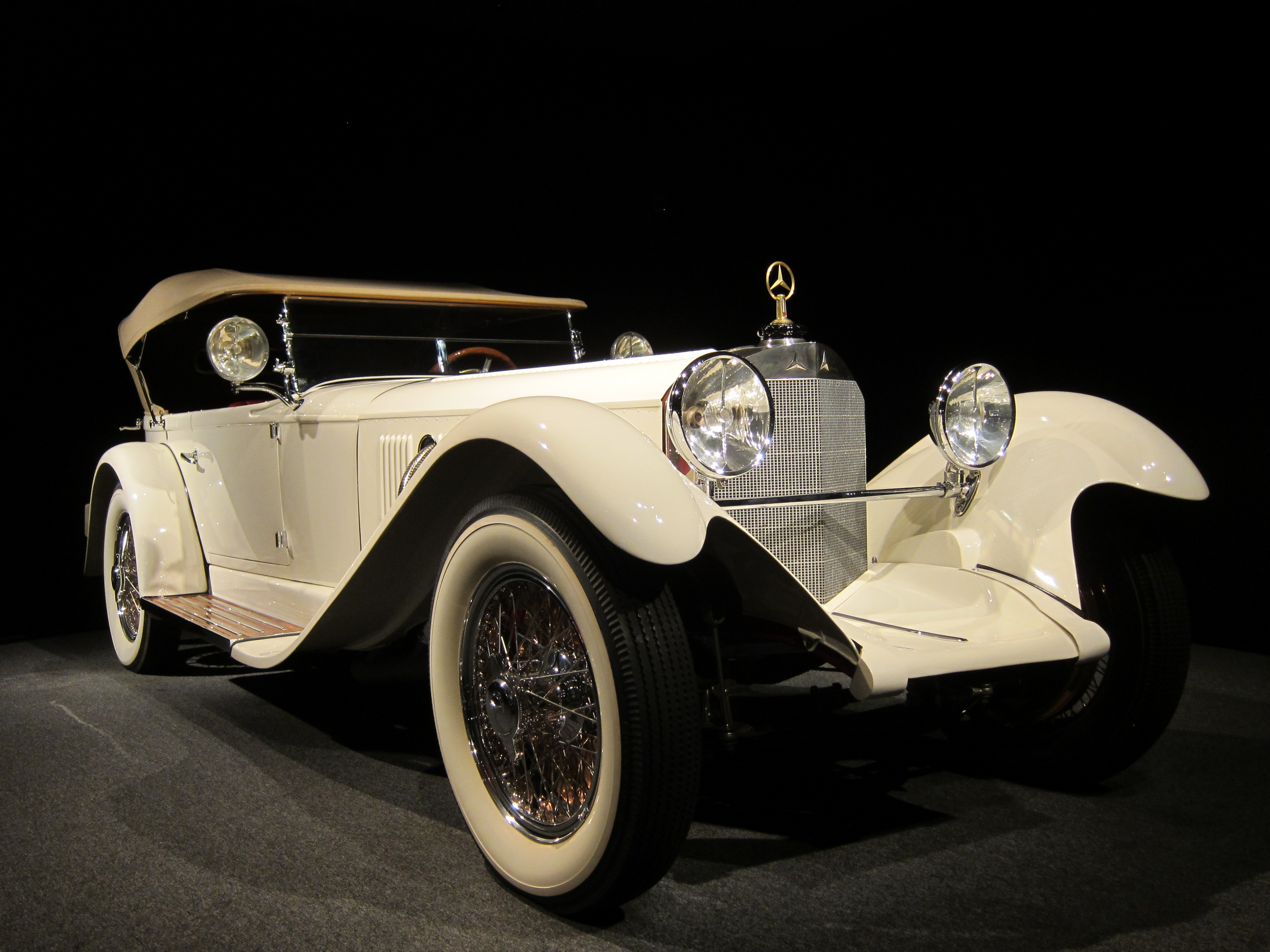 Awesome Behring collection of classic cars. Danville, CA